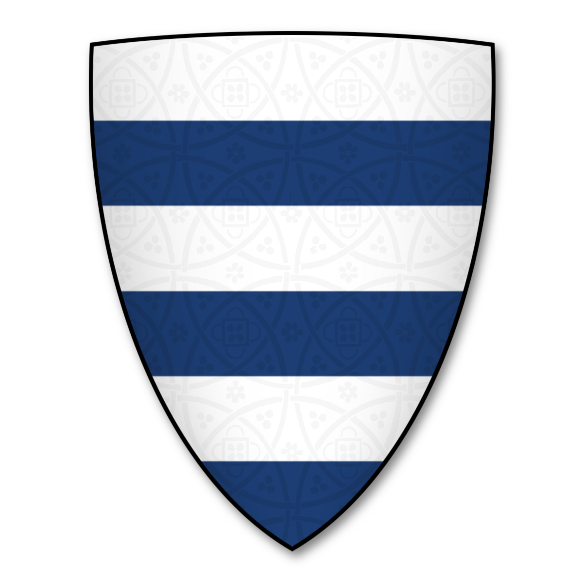 Coat of Arms of Henry de Grey, of Codnor, as blazoned in the Caerlaverock Roll (K-006: "Henri de Grai") "De sis pecys la vous mesur Barree de argent e de asur." Arms: Barry [of 6] argent and azure.